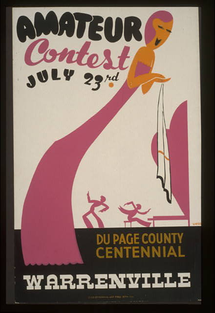 WPA poster showing a stylized drawing of a woman singing.